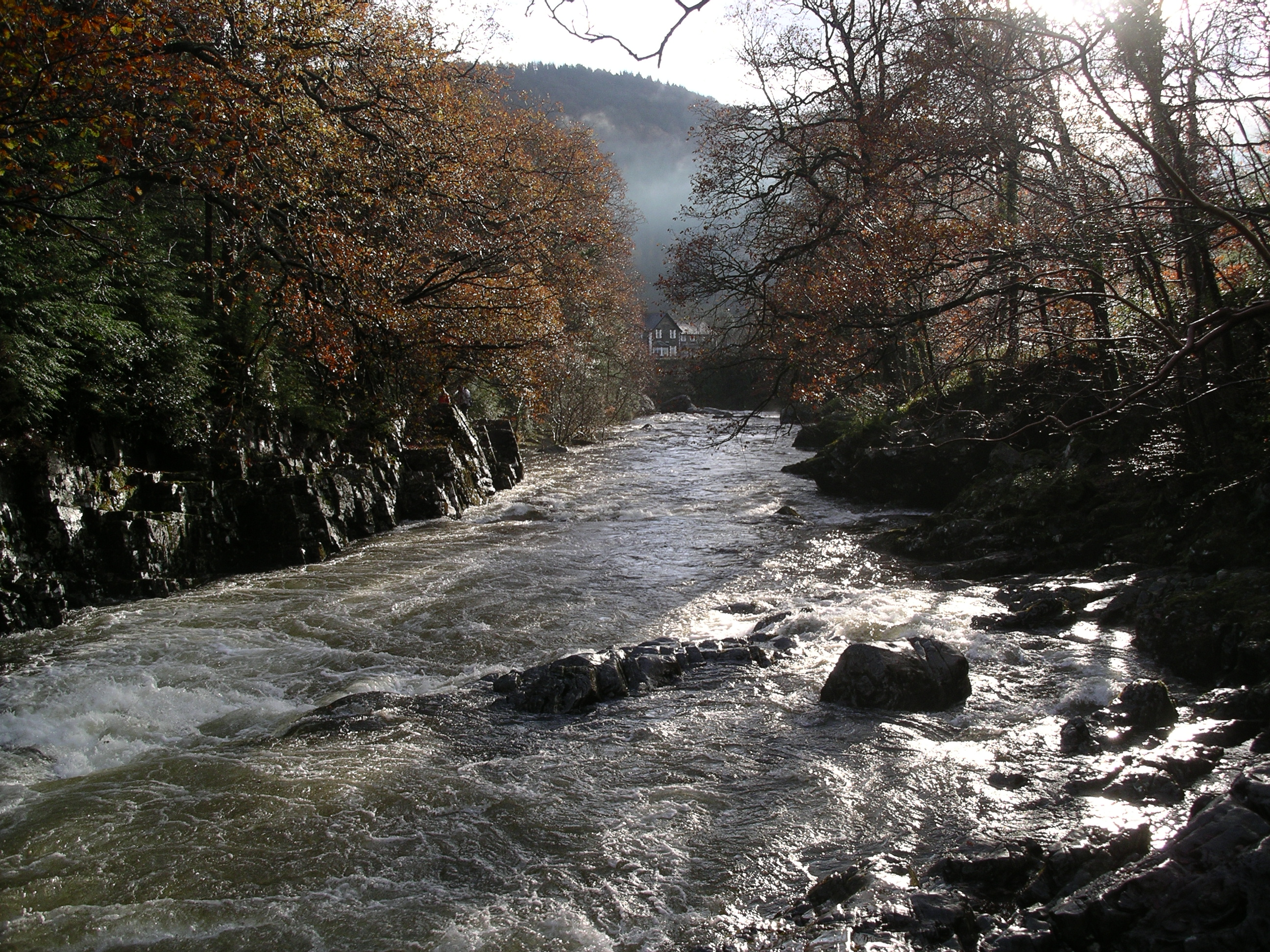 River Llugwy near Betws y Coed, December 2005